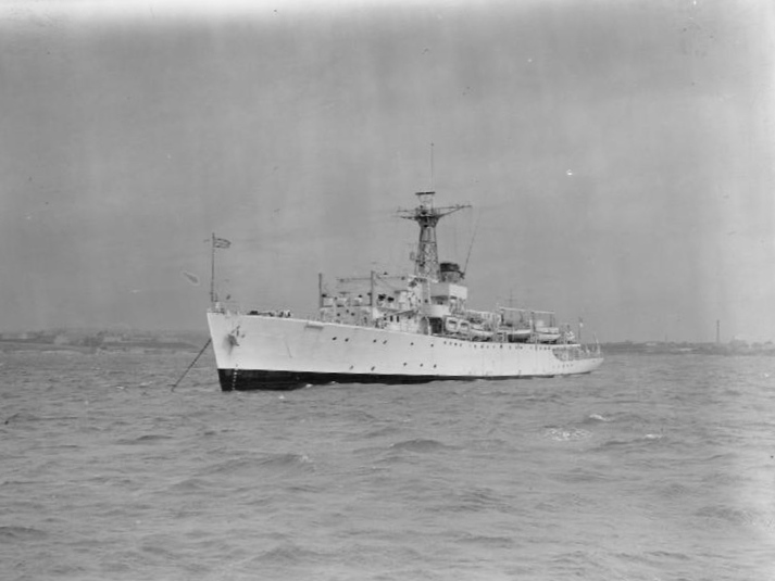 Photograph of British minesweeping survey vessel HMS Cook (K638) at anchor in Plymouth Sound.